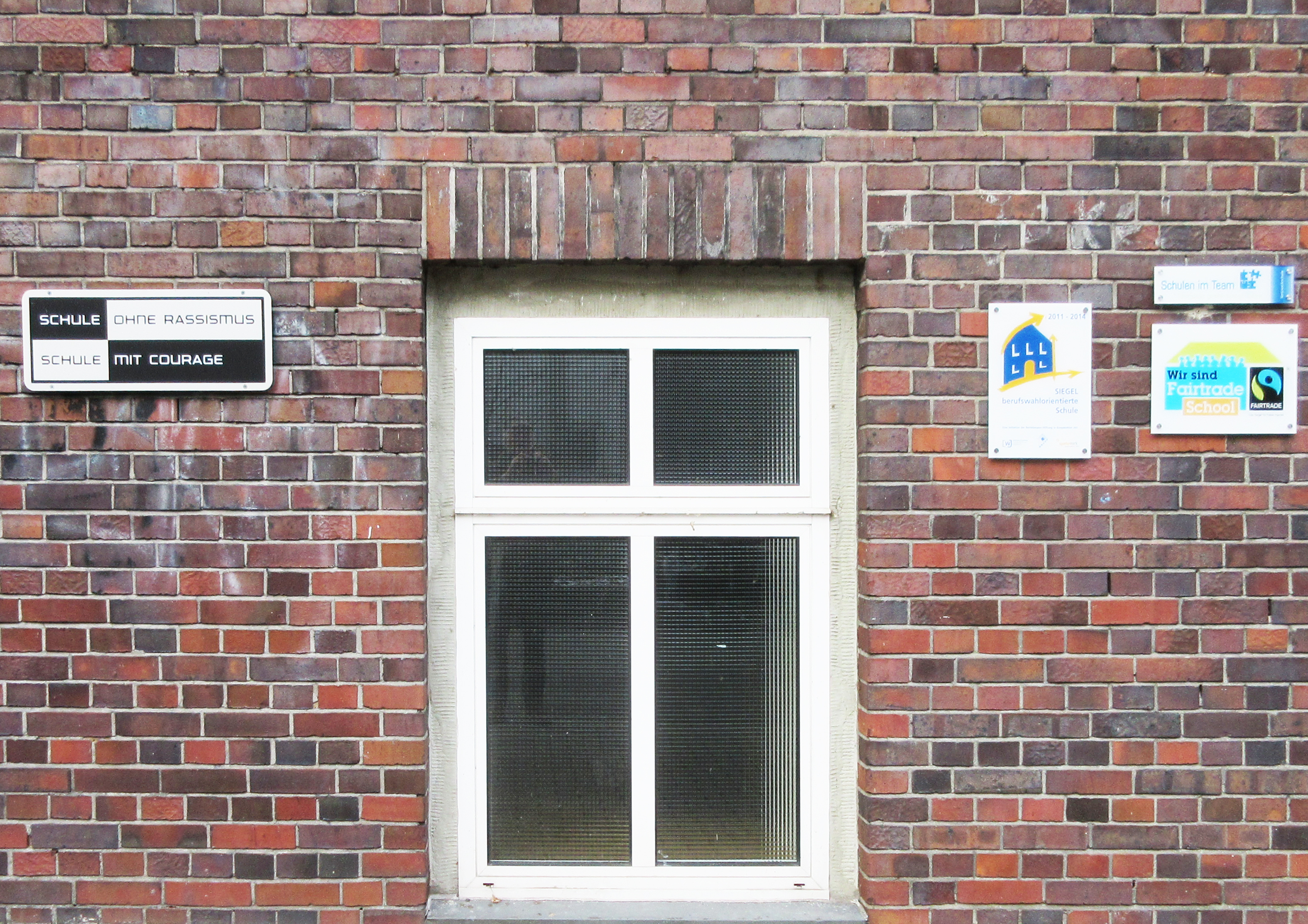 Christian Rohlfs School Hagen, Hagen/Germany, Awards